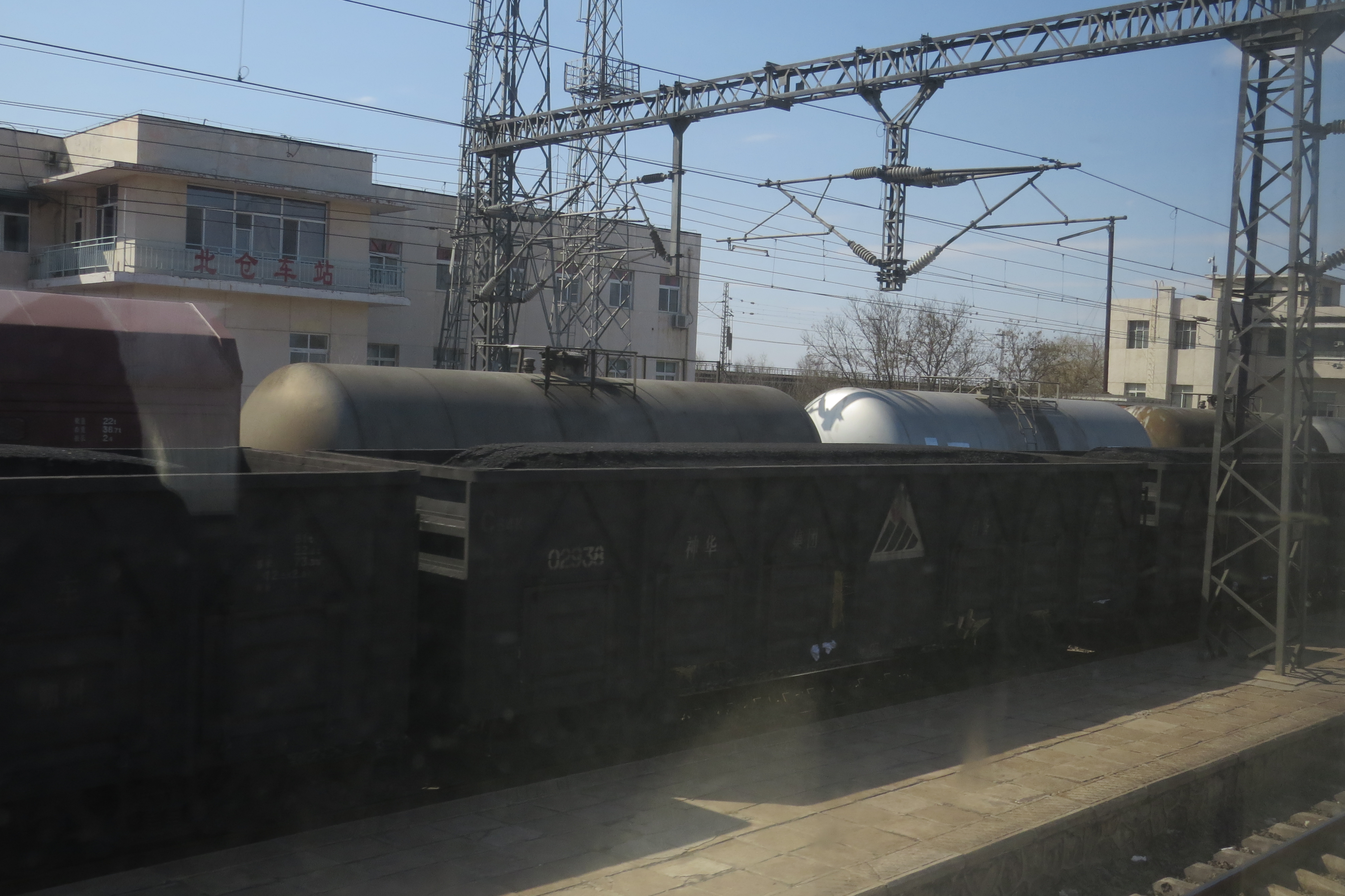 "Zhang Lichang goes to Beicang, then Tianjin goes well-off." Exactly here.